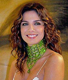 Luciana Gimenez, Brazilian television host. Cropped from Luciana_Gimenez_3.jpg Originally posted by Sérgio Savarese on Flickr.